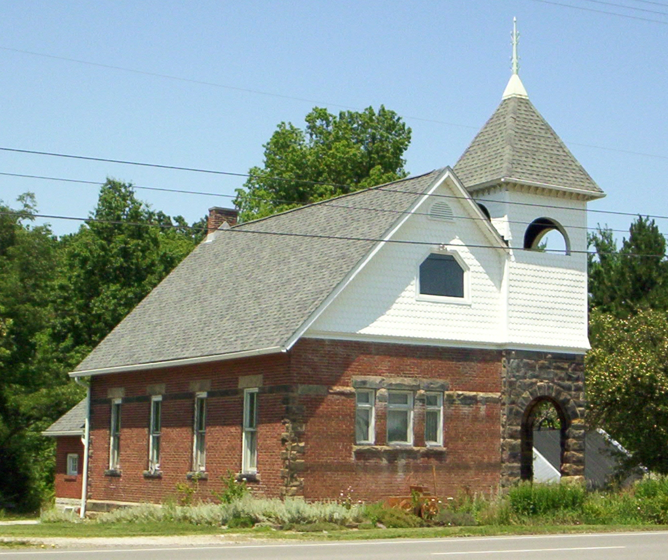 Anderson Schoolhouse, located southwest of Ashland, Ohio, United States was listed on the National Register of Historic Places on March 25, 1977.